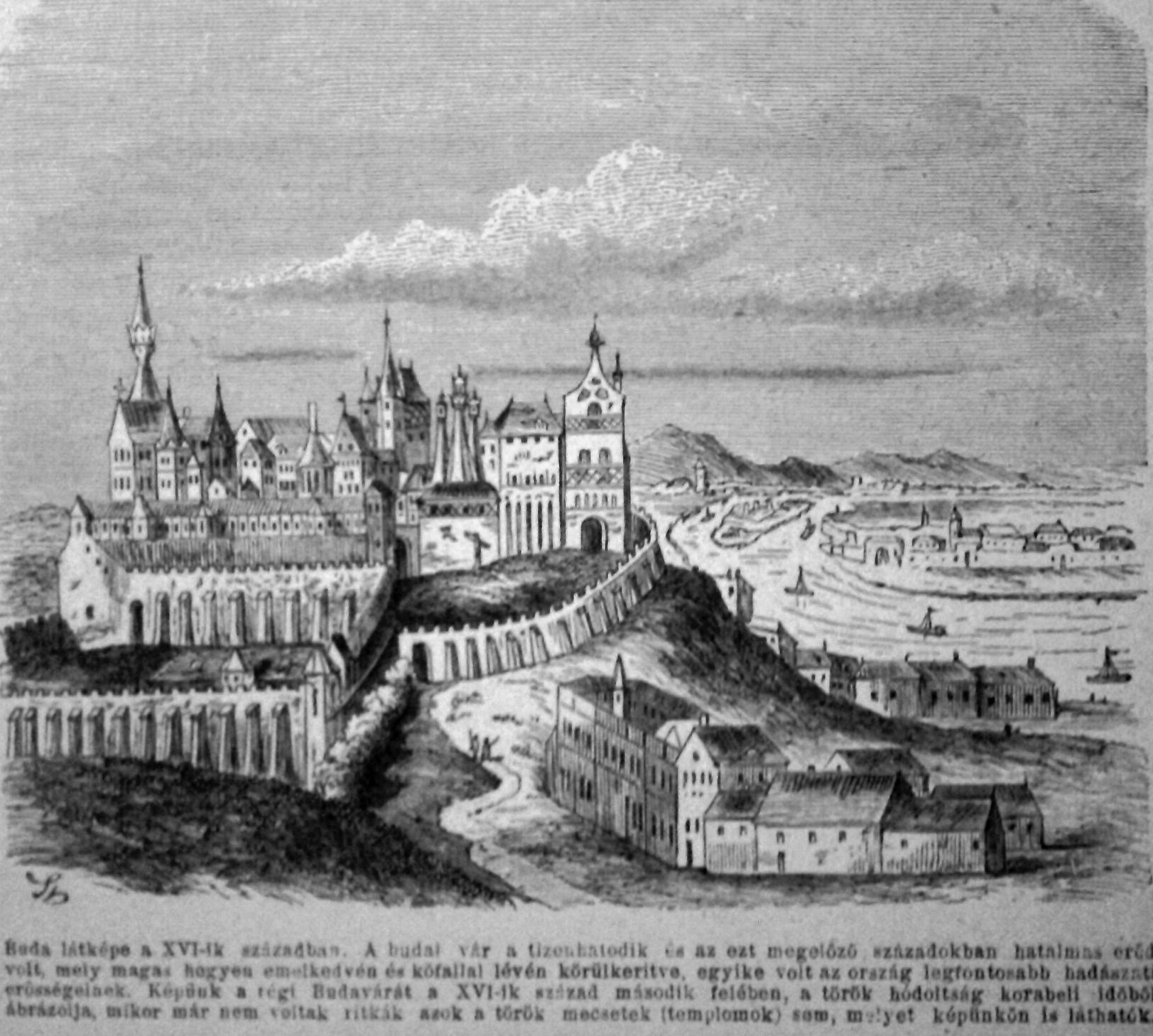 The Buda Castle in 16th century